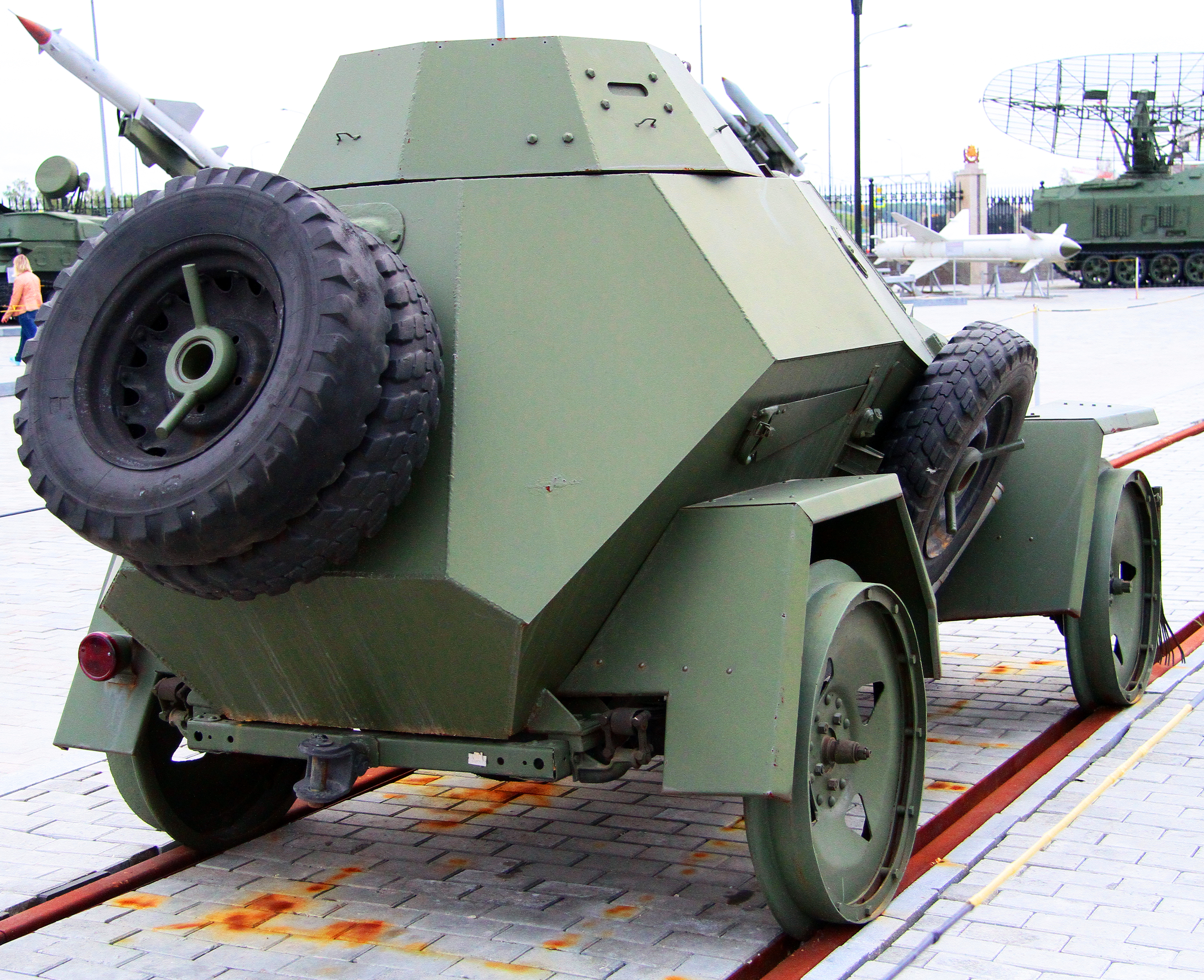 Rear view of the BA-64 railroad version replica pictured in "Museum of military and automobile vehicles" situated in the city of Verkhnyaya Pyshma, Russia.